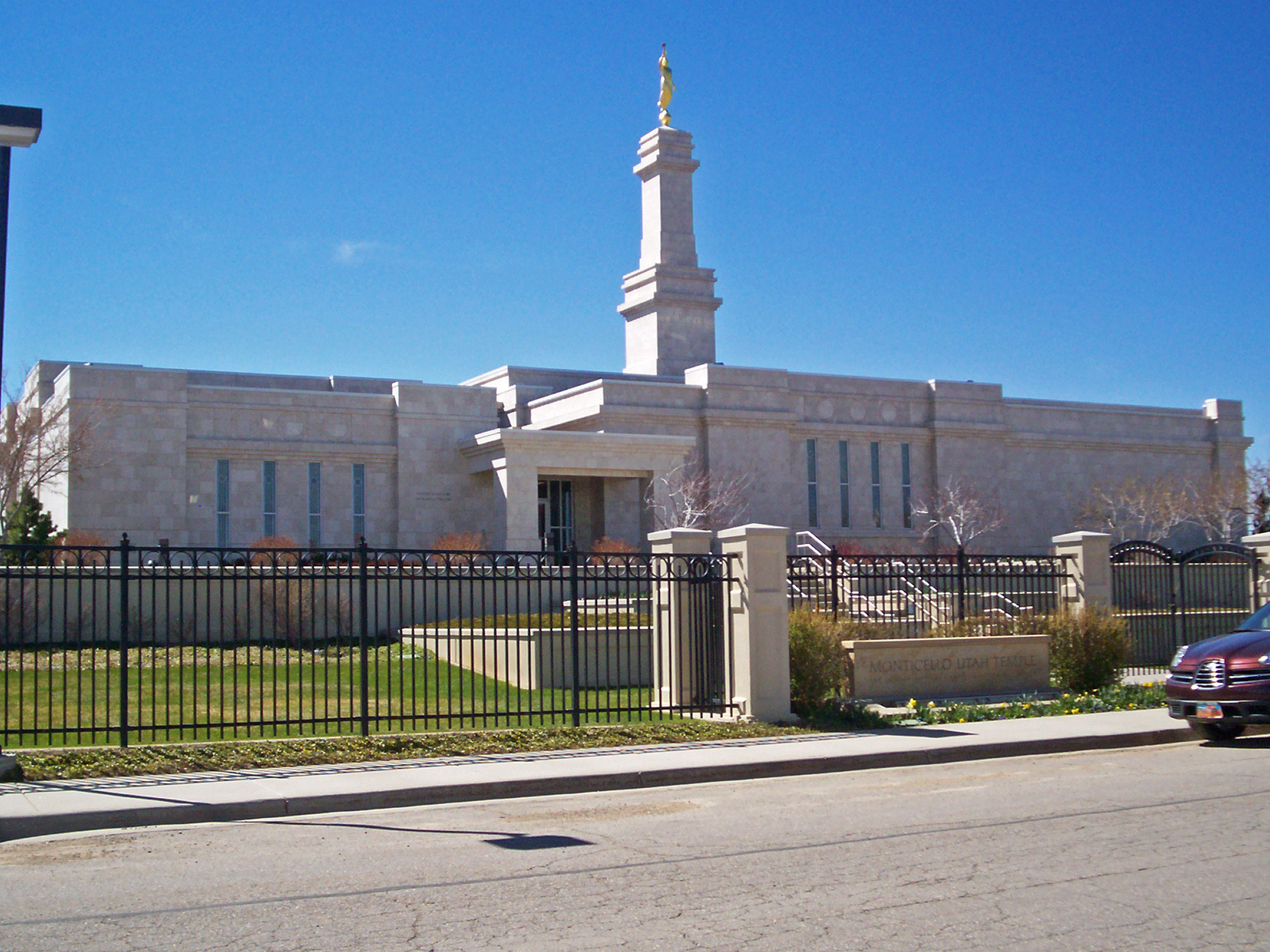 Monticello Utah Temple of the Church of Jesus Christ of Latter-day Saints by David Jolley 2007